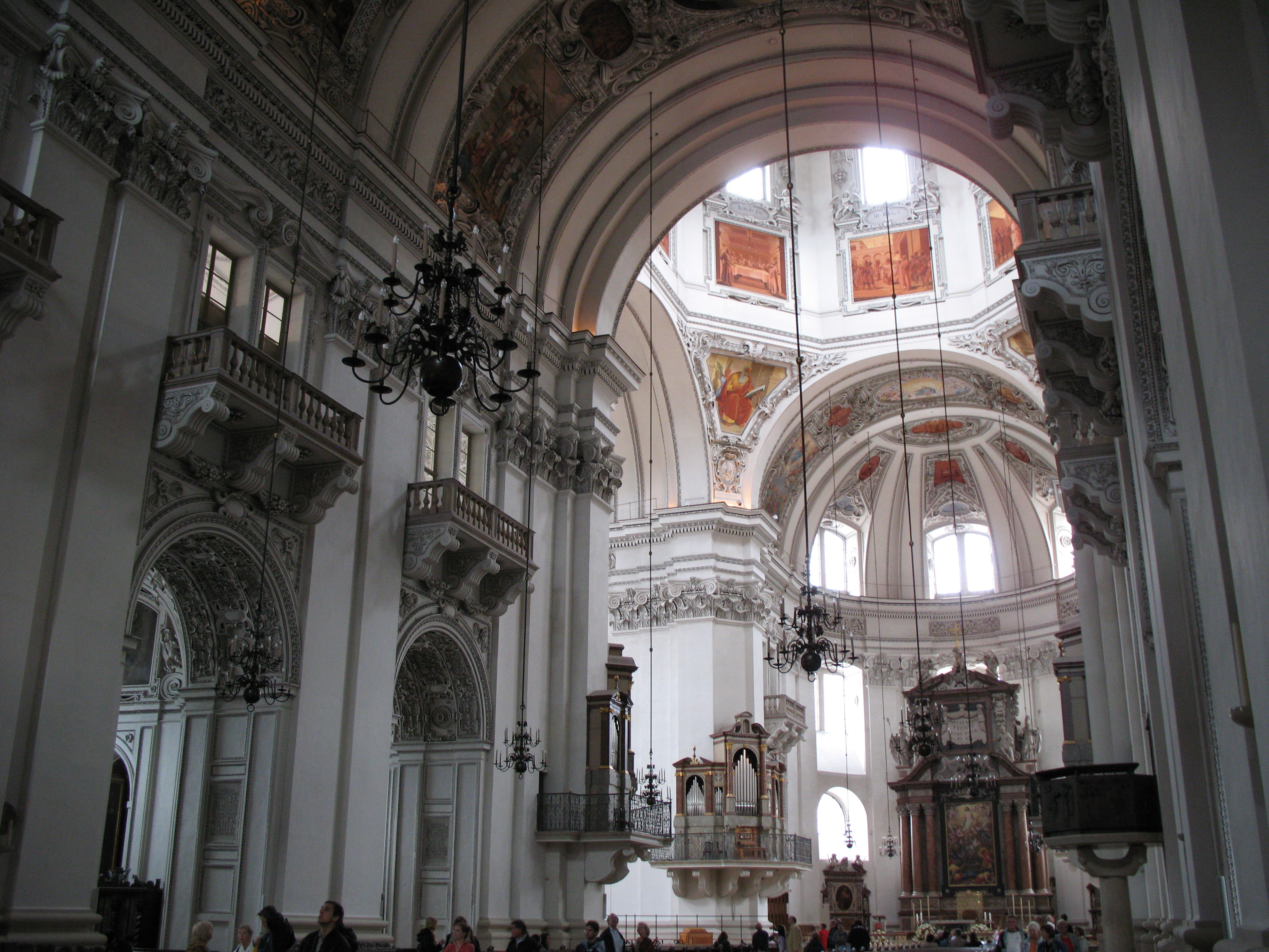 Cathedral, Salzburg, Austria